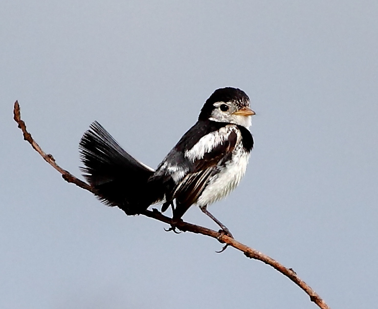 Cock-tailed Tyrant (male at breeeding plumage) at Serra da Canastra National Park - MG -Brazil